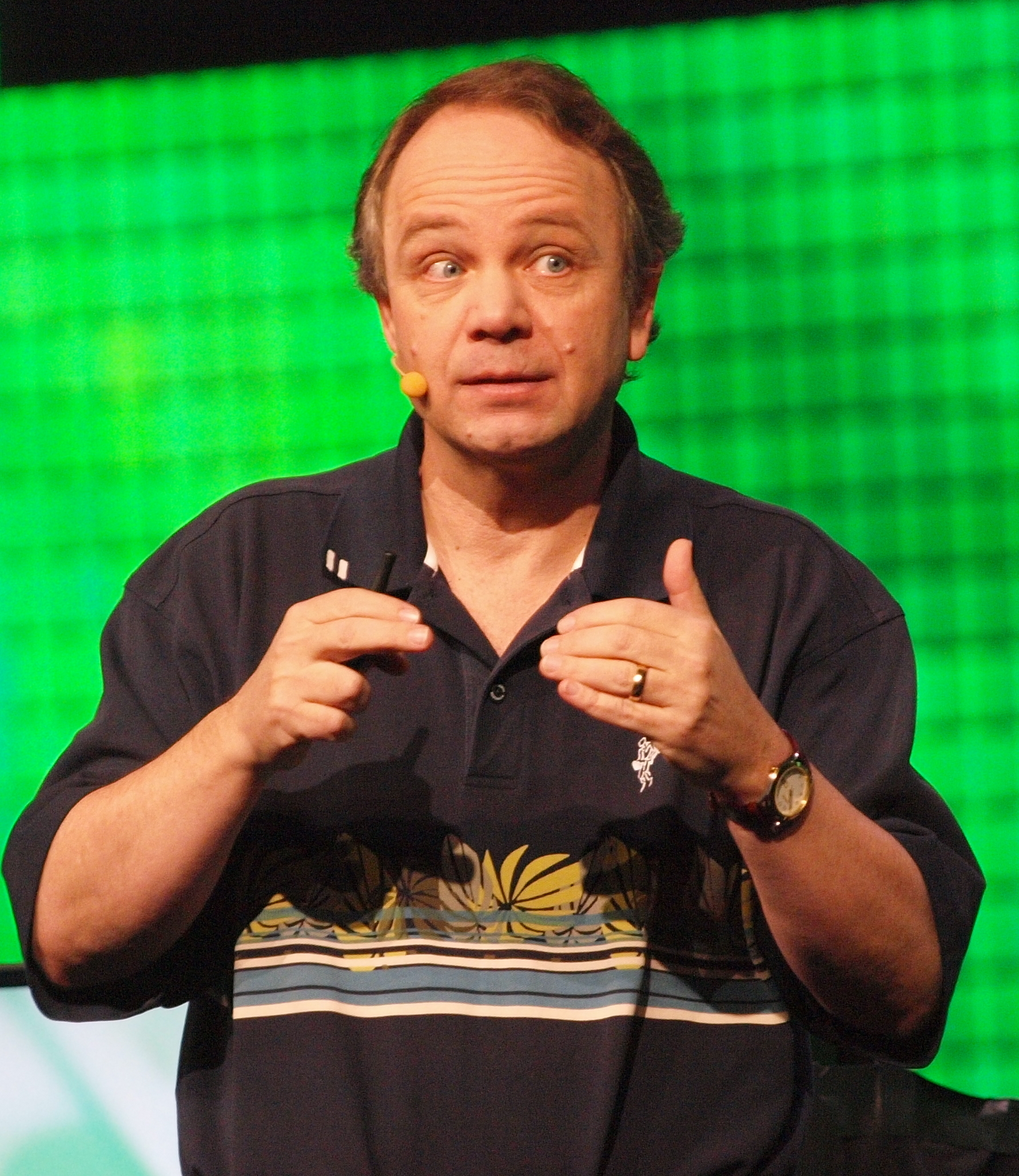 Sid Meier at the Game Developers Conference in 2010 (fourth day).